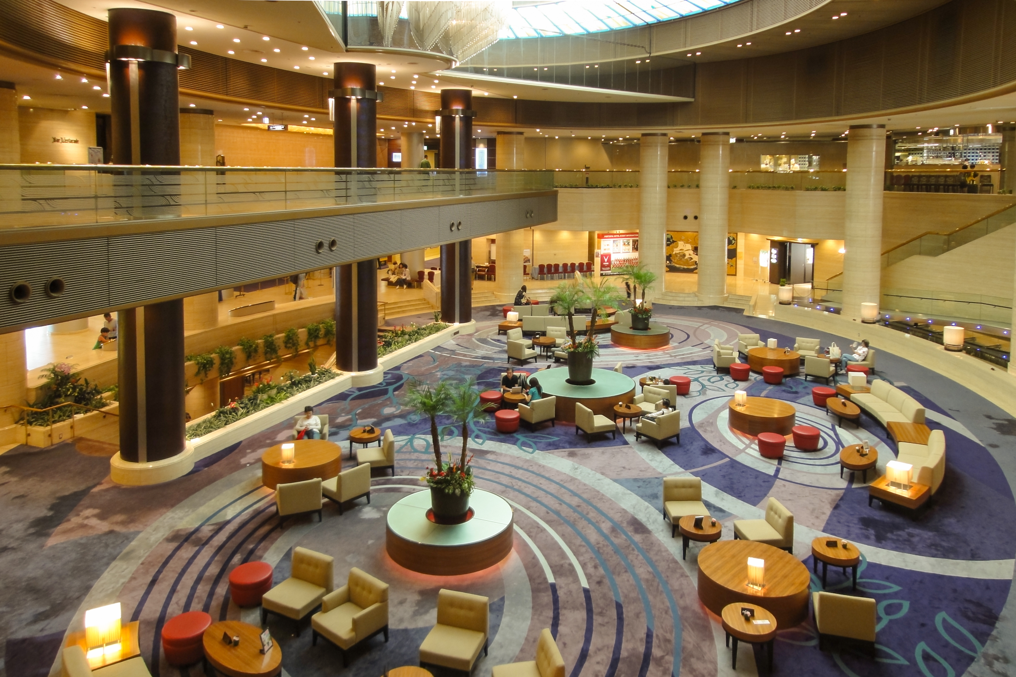 Photograph of the atrium lobby of the main building, Kobe Portopia Hotel, in Chuo-ku, Kobe, Hyogo Prefecture, Japan.